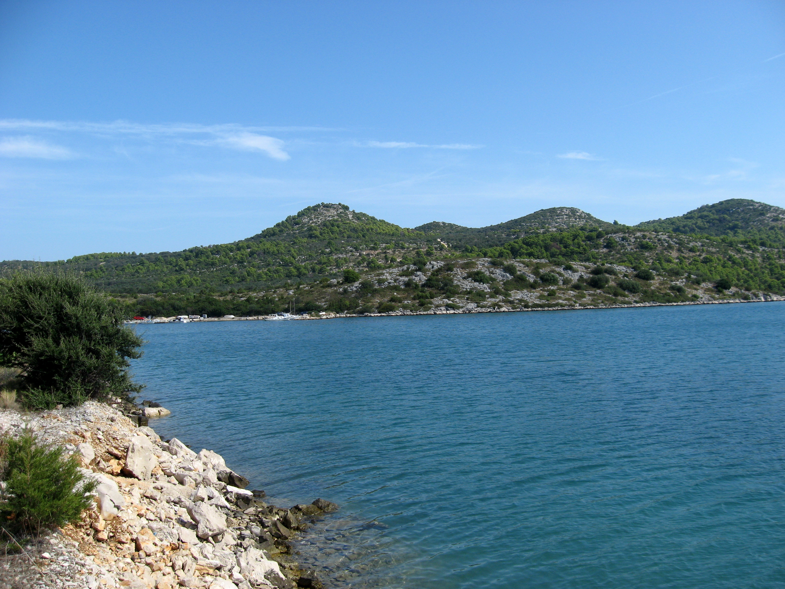 Bay of Telascica. Dugi Otok. Croatia